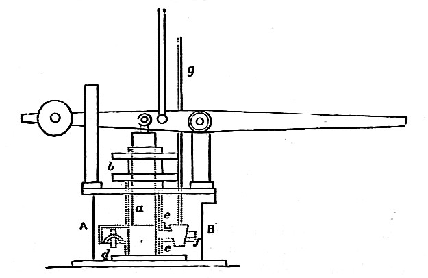 Cataract governor, as used on Newcomen atmospheric beam engines.